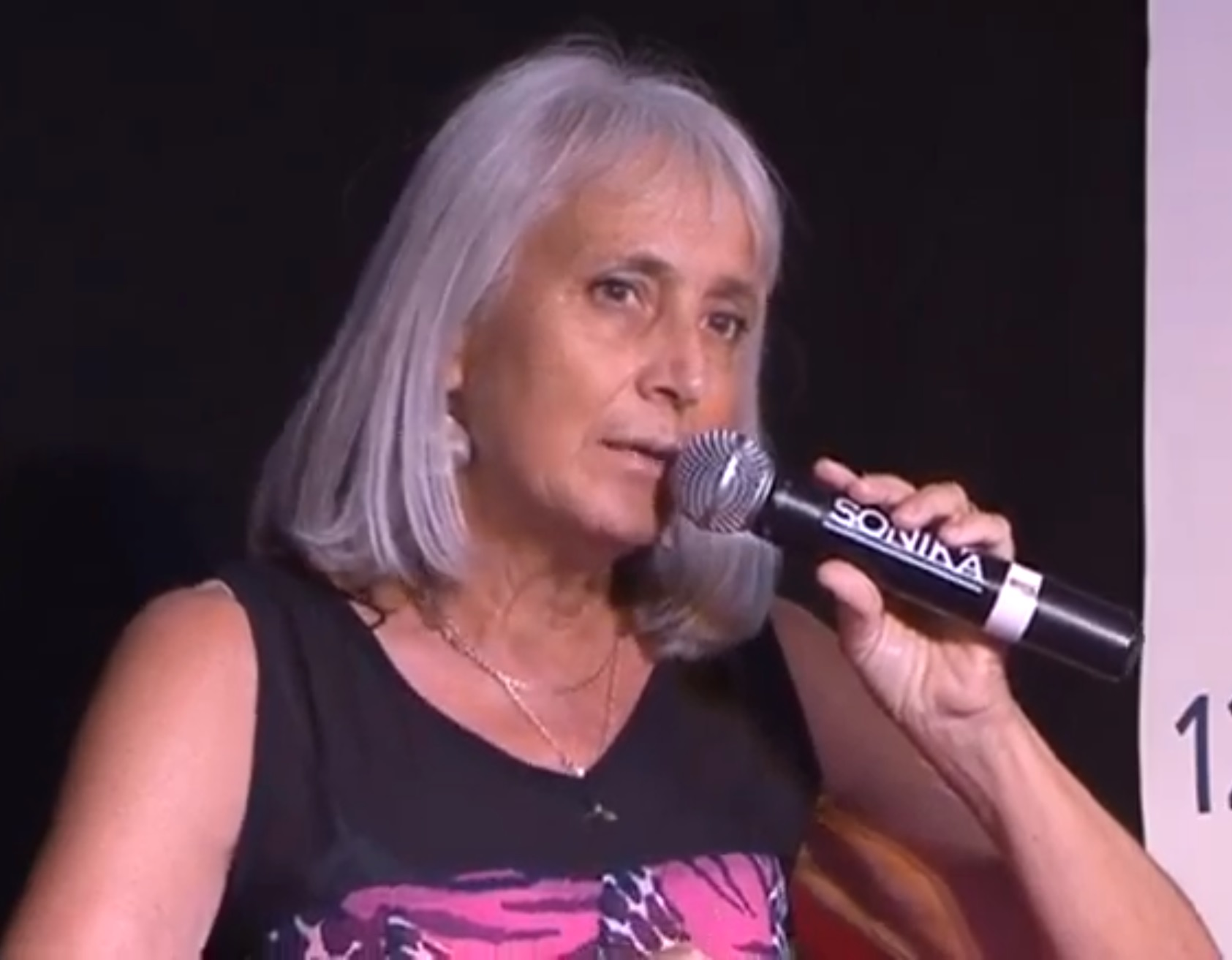 Italian writer Beatrice Monroy speaks at PERCHÉ DONNE ("Why Women"): discussion on violence against women and law, held in 2013 by the Italian General Confederation of Labor in Bari. According to the acknowledged data, domestic violence against women is not reported in 80% of cases. Often because the victims are not aware of what is happening to them. In some cases, women victims even blame themselves. Now as ever, given the moment of high concentration on femicides and episodes of stalking, there is felt the necessity of discussing this subject, to find effective solutions, and, above all, not to be silent. Interview with Beatrice Monroy, Anna Lepore, and Nicky Persico. Conducted by Nica Ruggiero.